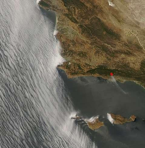 Smoke rises from the Gap Fire in Santa Barbara, California